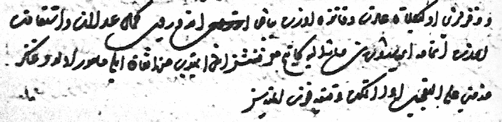 From Ottoman archives: Detail of a letter to the Bey of the Akıncı with Sultan's order to recruit Akıncı